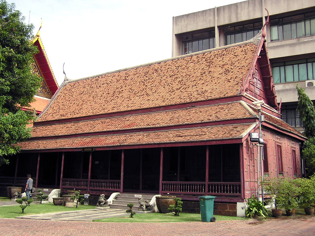 Red mansion in Bangkok National Museum (Wang na), Bangkok , Thailand